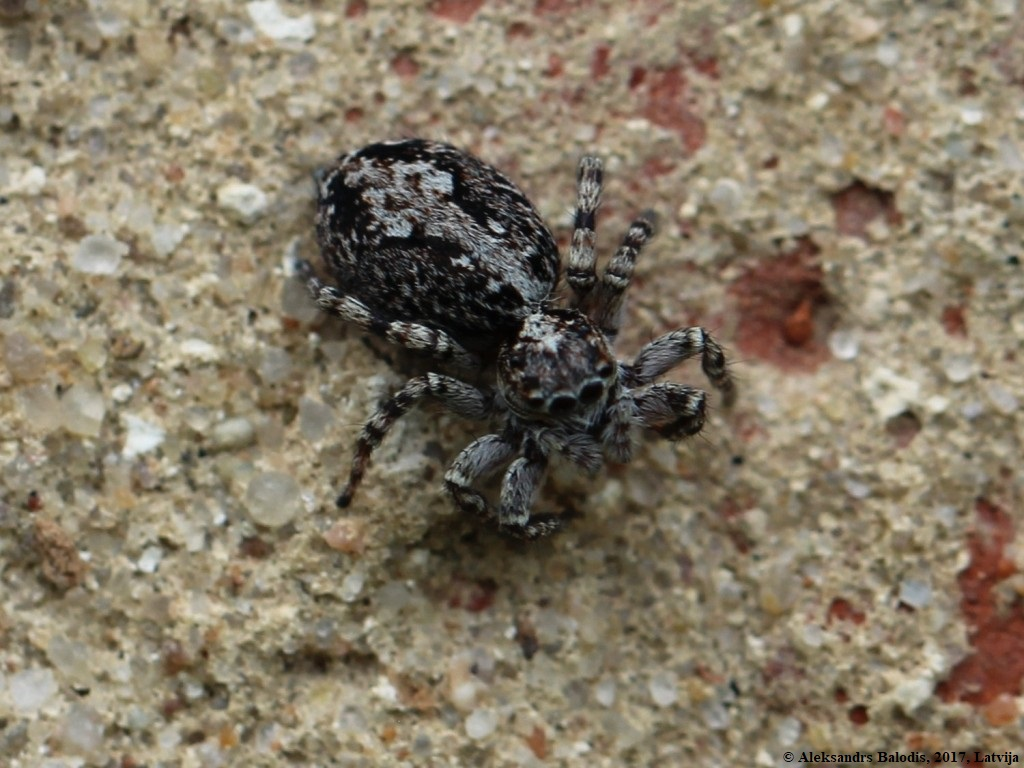 Sitticus terebratus